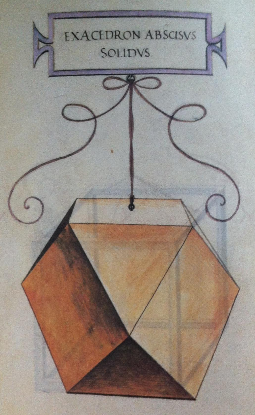 Cuboctahedron drawn by Leonardo da Vinci